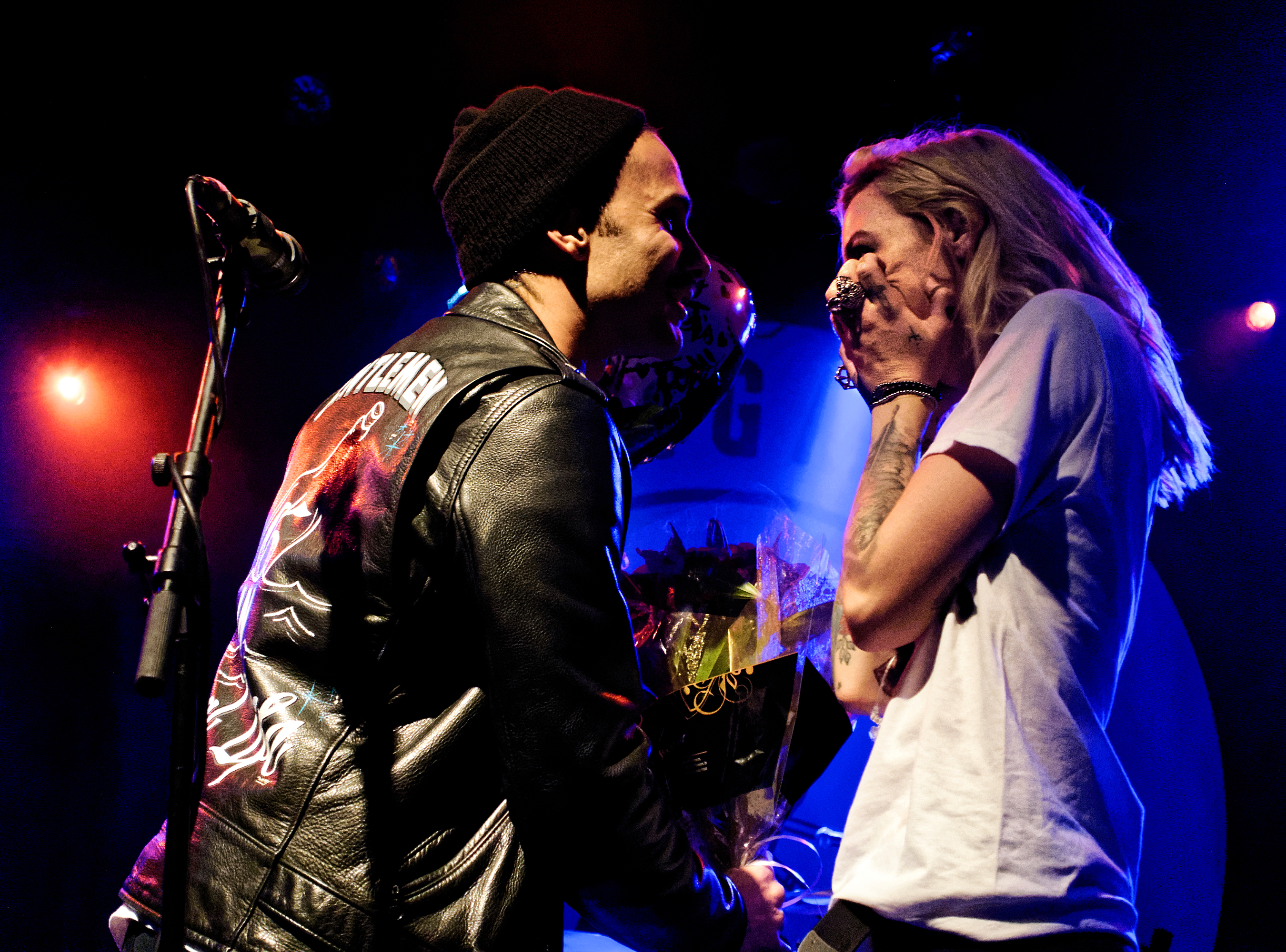 Gin Wigmore (with openers Matthew Santos and Gentlemen) performing live at the El Rey Theatre in Los Angeles California on Thursday May 5th, 2016. This was the final show on Gin's "Willing to Die" Tour.